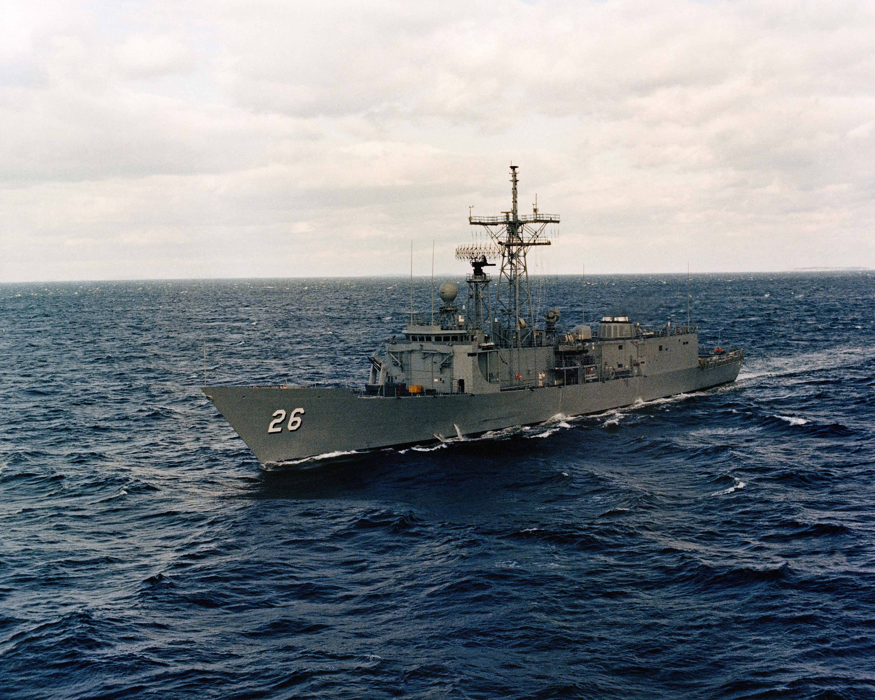 A port bow view of the Oliver Hazard Perry class guided missile frigate USS GALLERY (FFG 26) underway off the coast of Maine.